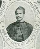 Portrait of SMAC member Boyko Chavdarov from Derekyoi